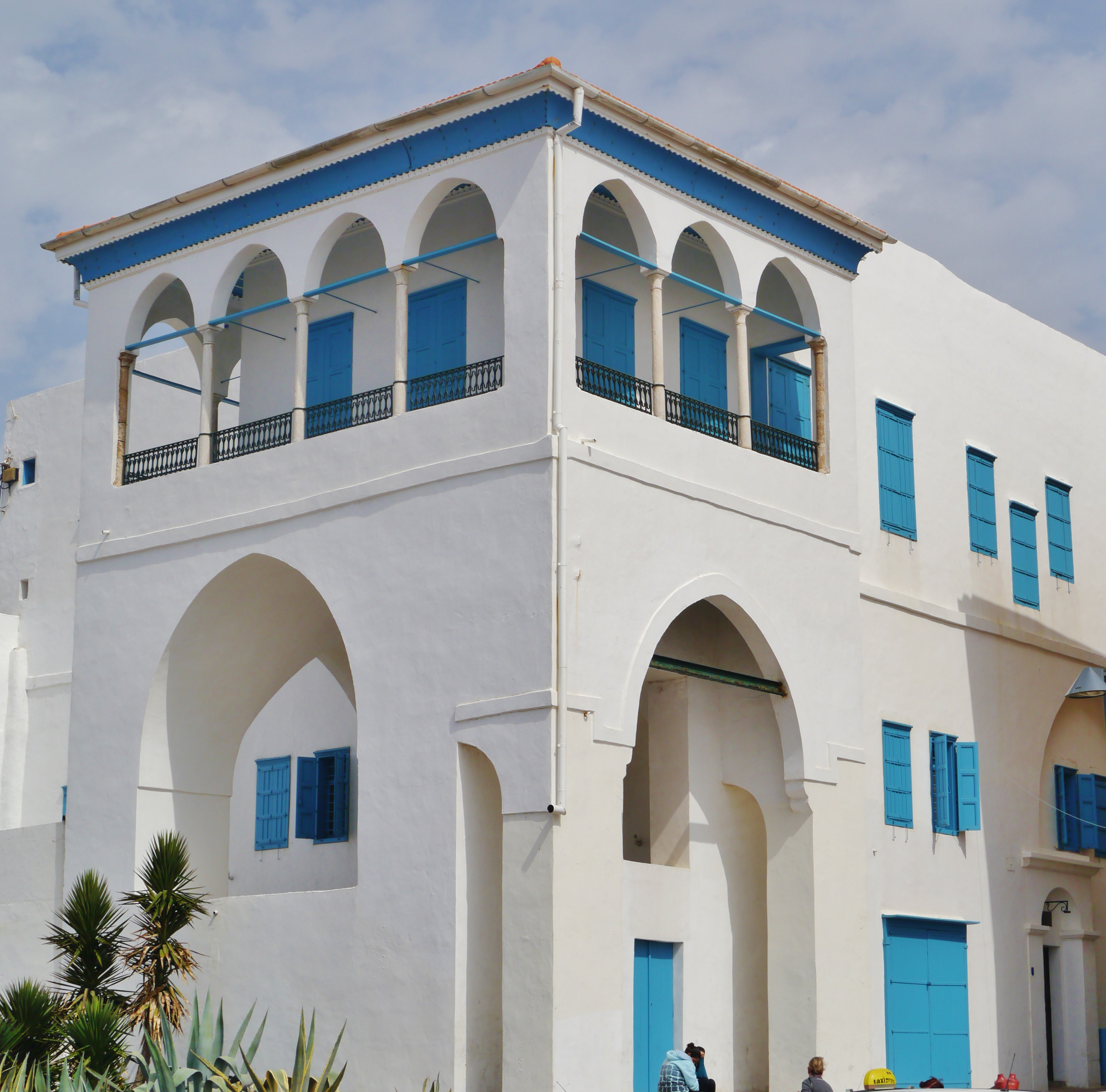 House of Abbud, Akko, Israel